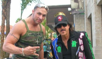 A cropped version of File:Hoty, Hart and a fan.jpg, showing professional wrestler Lance Hoyt, and manager Jimmy Hart